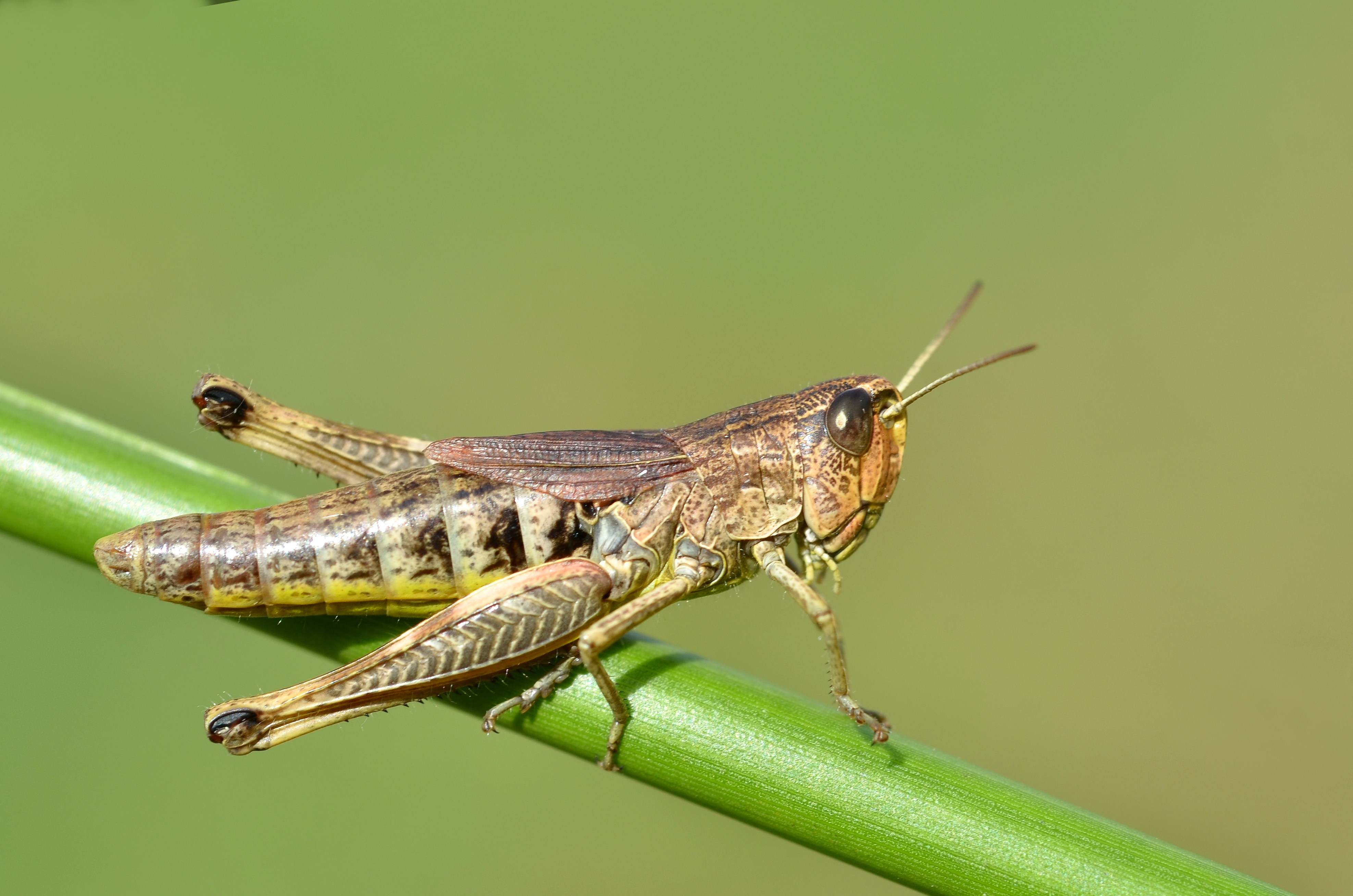 Chorthippus parallelus female